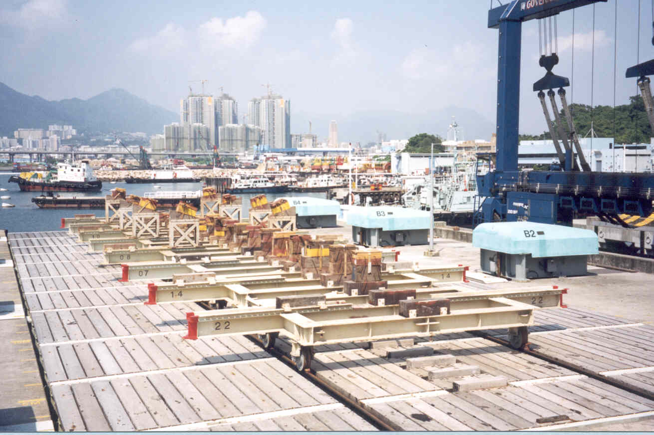 Cradle for shiplift in Hongkong.